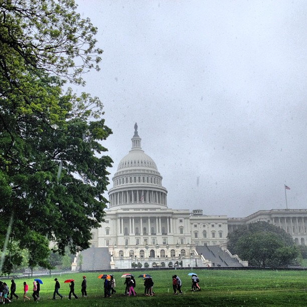 This official Architect of the Capitol photograph is being made available for educational, scholarly, news or personal purposes (not advertising or any other commercial use). When any of these images is used the photographic credit line should read “Architect of the Capitol.” These images may not be used in any way that would imply endorsement by the Architect of the Capitol or the United States Congress of a product, service or point of view. For more information visit